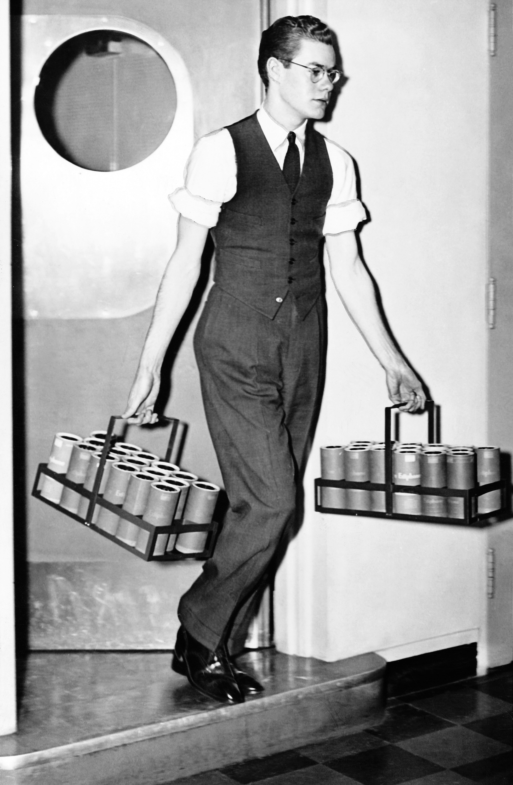 Promotional photograph of a staff member at a CBS listening station, transporting wax cylinder recordings of propaganda broadcasts from Europe